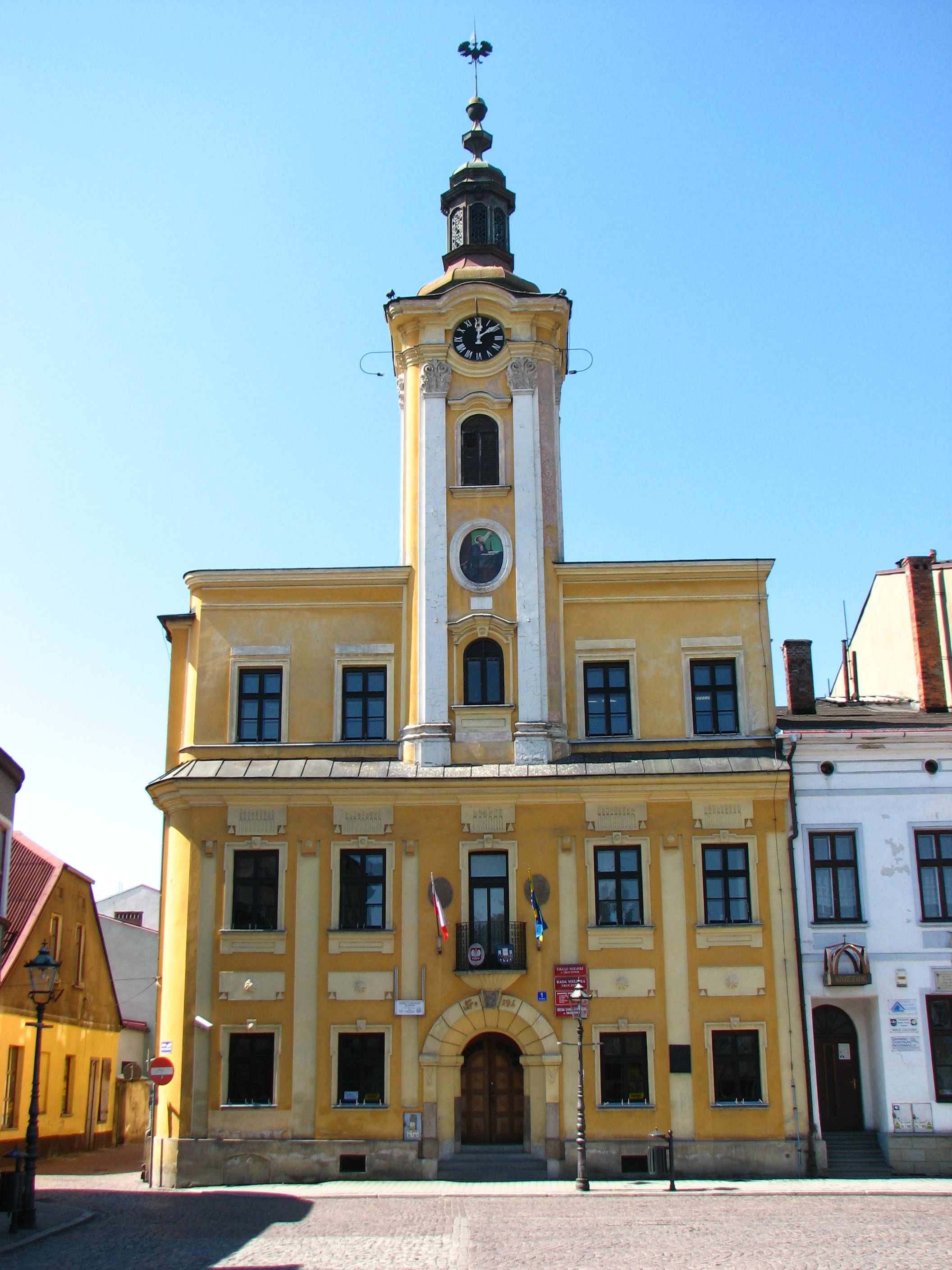 Town hall in Skoczow